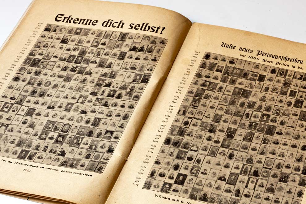 Leisure page in the german boulevard magazine "Die Zeit im Bild" from 1904